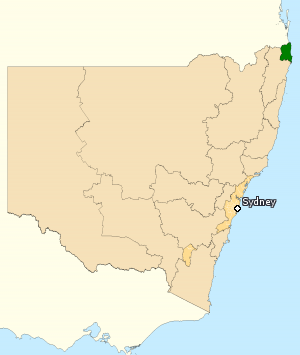 This image incorporates data that is: © Commonwealth of Australia (Australian Electoral Commission) 2009 Division of Richmond 2010